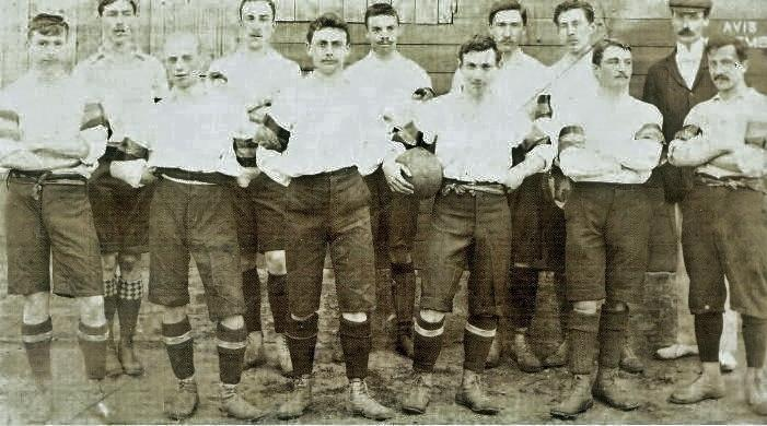 Belgium's national football A-selection before they challenged a Dutch B-team at Het Kiel in Antwerp, on 28 April 1901. Back row, left to right: Harry Menzies (English player), Georges Simon, Fernand Defalle (goalkeeper), Hughes Ryan (English player), Gustave Pelgrims, Charles Maggee (referee) Front row, left to right: Herbert Potts (English player), Jan Robyns, Ernest Gillion, Albert Friling (captain), Lucien Londot, Walter Potts (English player)